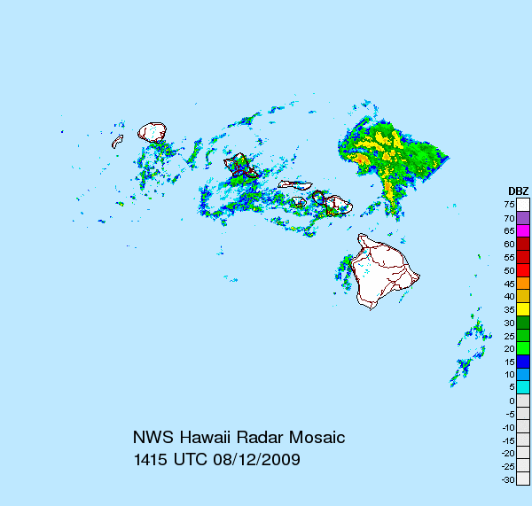 Remnant Low of Hurricane Felicia producing rainfall near the Hawaiian Islands at 4:15am HST on Aug. 12, 2009.